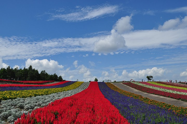 The panoramic flower gardens of Shikisai-no-oka